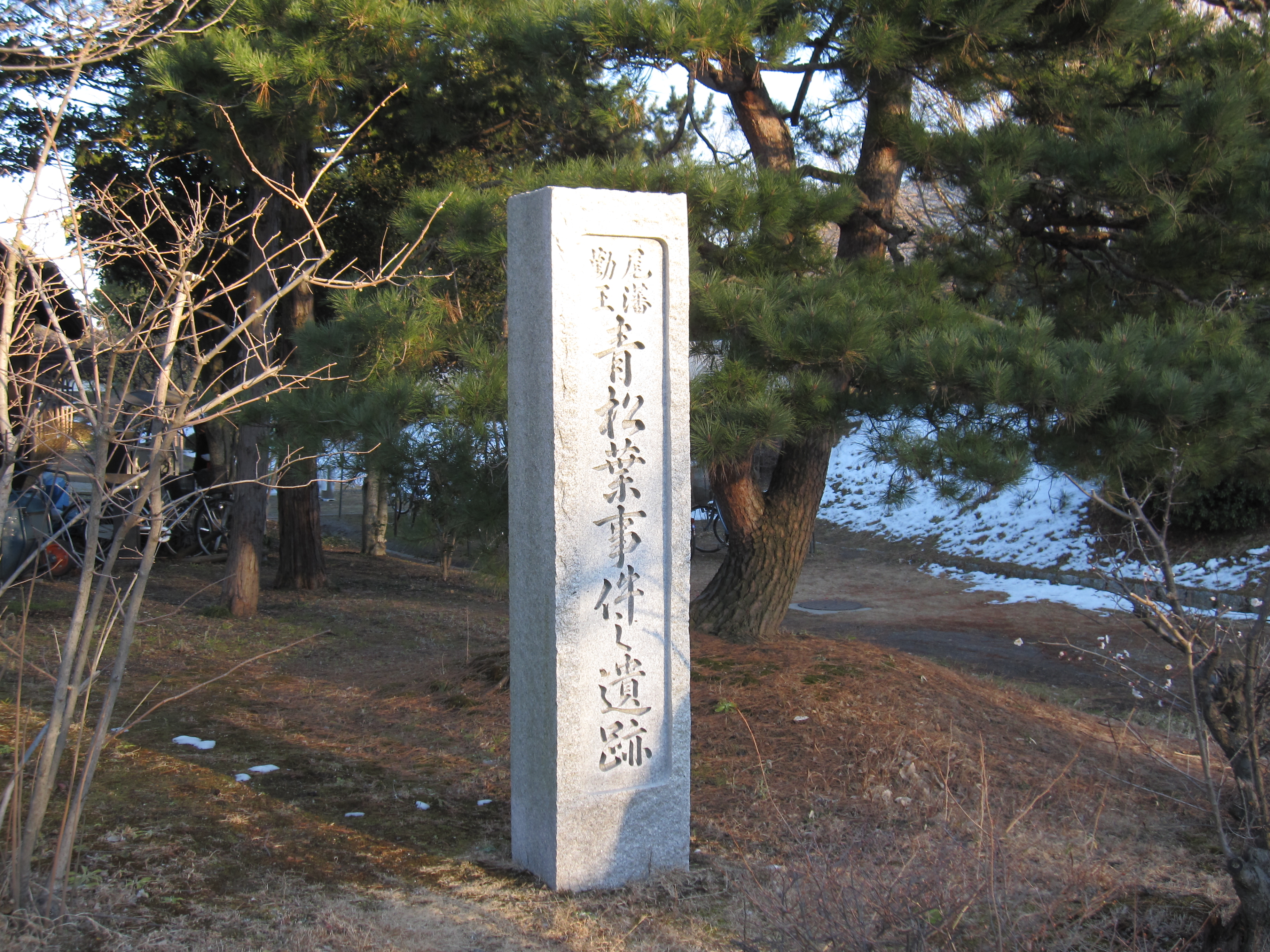 Three chief retainers of the Owari branch of the ruling Tokugawa clan were executed in the Ninomaru Palace of Nagoya Castle in 1868, what became known as the Aomatsuba Incident. Early in the Showa era, around 1926, a monument was erected at the execution site. The exact site is unknown although it is thought to have taken place approximately 100 metres south of the current site of the monument. The stone stelae was re-erected after the original one disappeared.